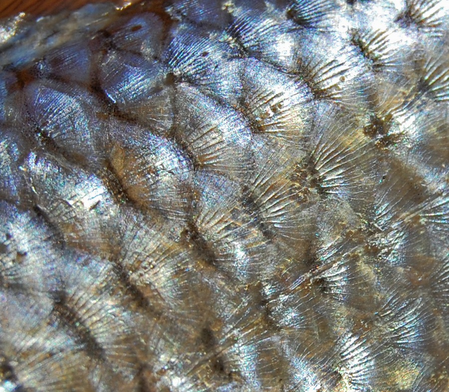 Barbonymus gonionotus, scales and lateral line (lower right). From Cisadane River, Situgede, Bogor, West Java, Indonesia errata: Misidentified, it should be Mystacoleucus marginatus